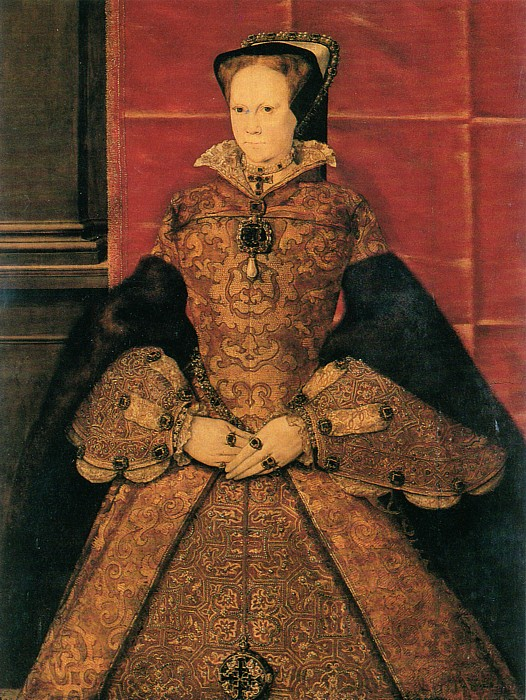 Portrait of Mary I of England, signed "HF 1554" (originally "HE"), Society of Antiquaries of London LDSAL 336, oil on oak panel, 1040 x 785mm (41 x 31 inches)